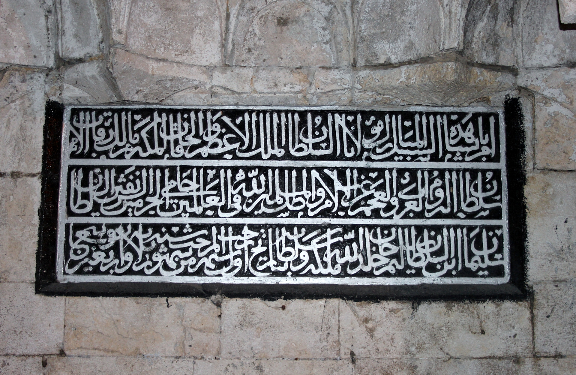 Old City of Jerusalem, June 21, 2012. Muslim Quarter.